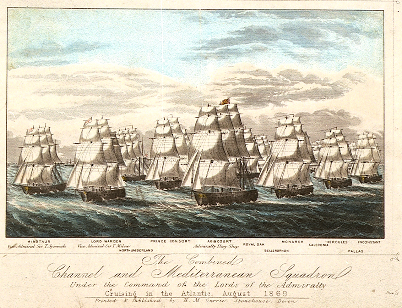 The Combined Channel and Mediterranean Squadron Under the Command of the Lords of the Admiralty, Cruising in the Atlantic, August 1869; engraving, coloured; ships represented are HMS Minotaur (1842), HMS Lord Warden (1865), HMS Northumberland (1798), HMS Prince Consort (1862), HMS Agincourt (1817), HMS Royal Oak (1809), HMS Prince Bellerophon (1818), HMS Monarch (1765), HMS Caledonia (1808), HMS Hercules (1810), HMS Pallas (1816), and HMS Inconstant (1836)